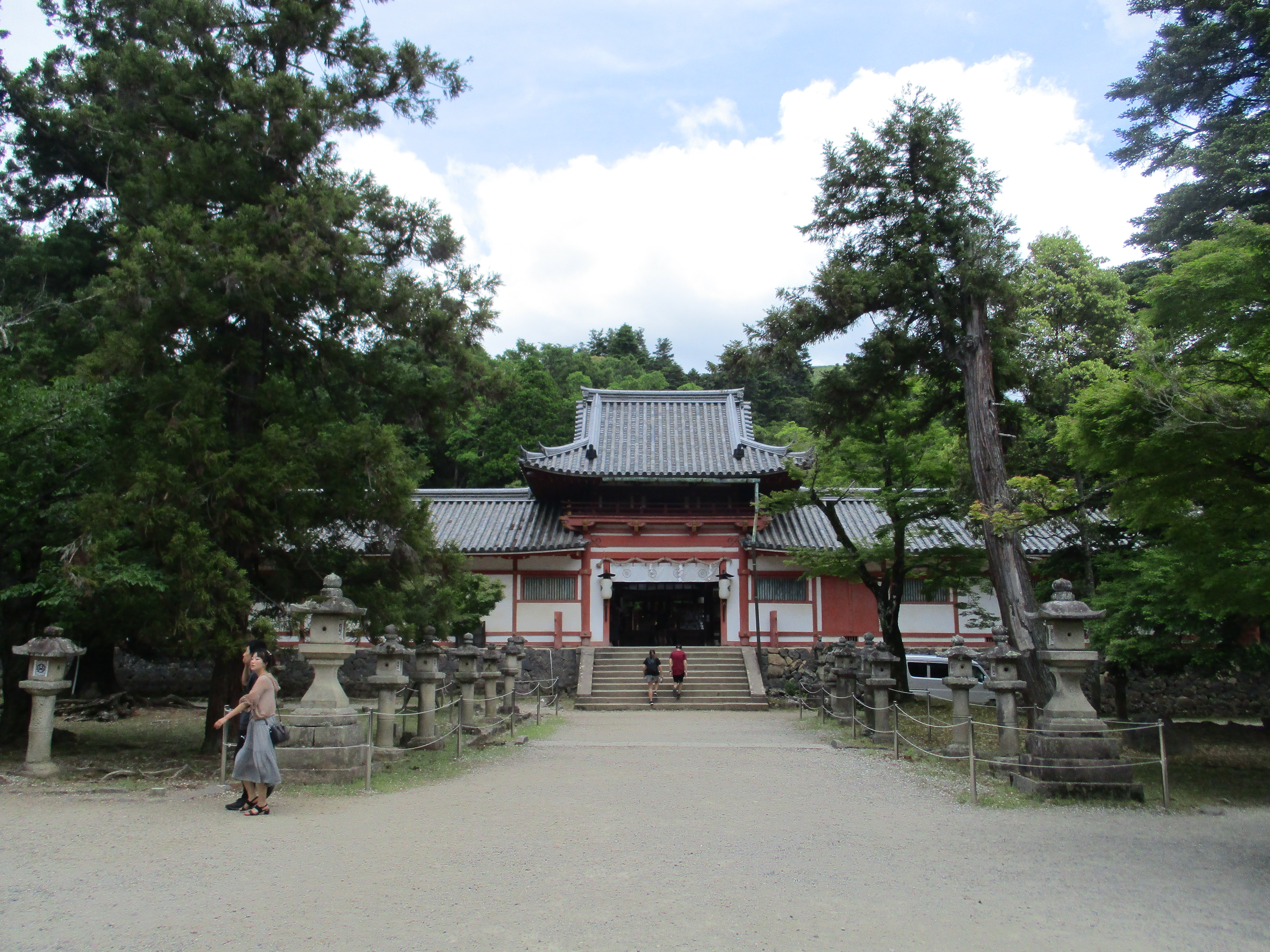 Tamukeyama Hachimangu Shrine - June 3rd, 2019, Nara, Japan.